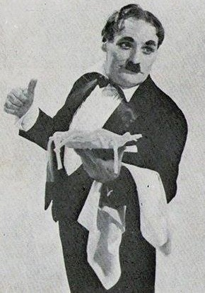 Tandarica- actor argentino